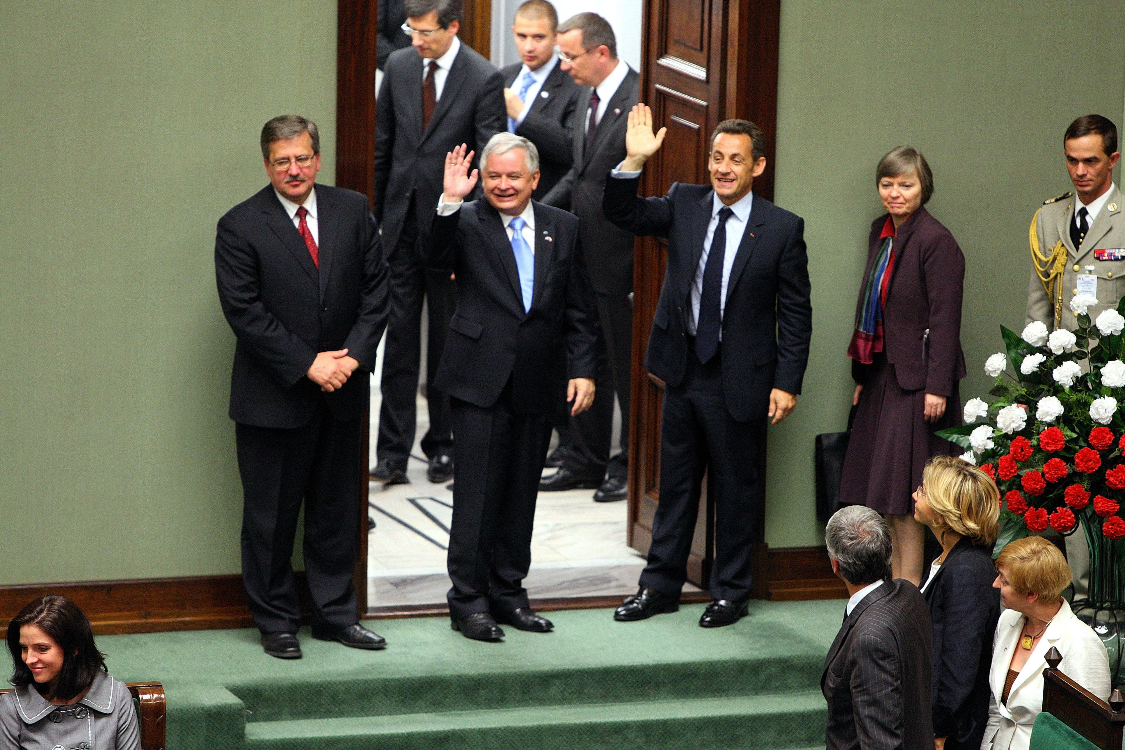 Lech Kaczyński and Nicolas Sarkozy in the Polish Sejm